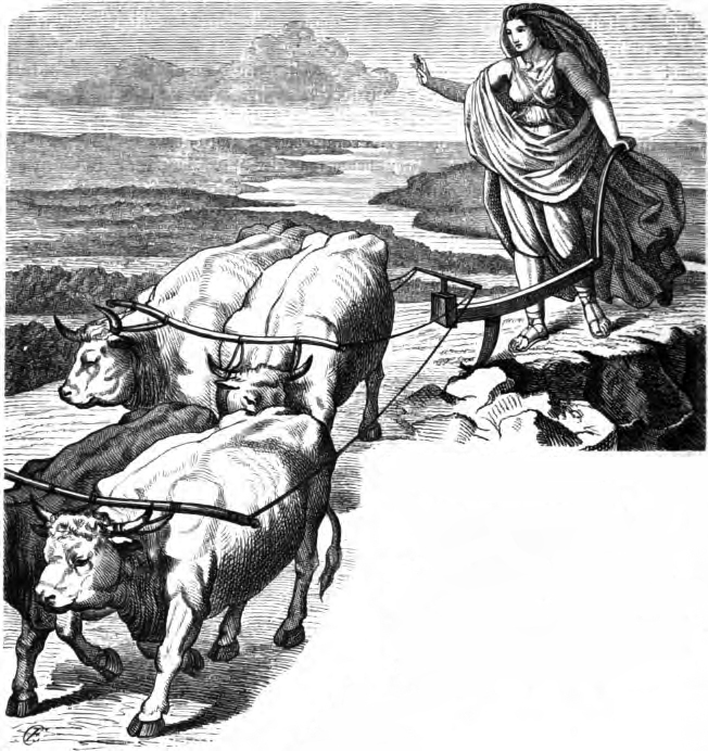 Captioned as "Gefion pflügt mit ihren Stieren Seeland". The goddess Gefjun plows up Zealand with her oxen sons. A depiction of the legendary origins of what is now the island of Zealand, Denmark as told in chapter 1 of the Prose Edda book Gylfaginning.